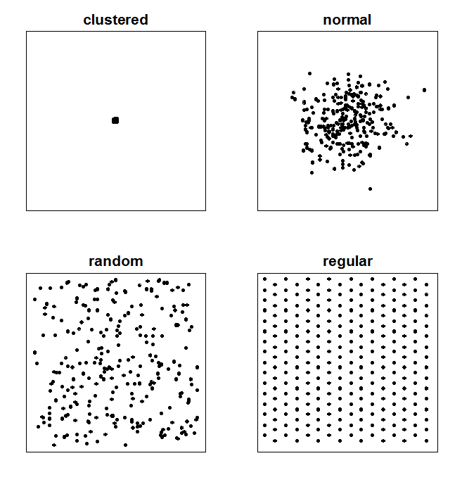 Four types of point patterns of 256 points.